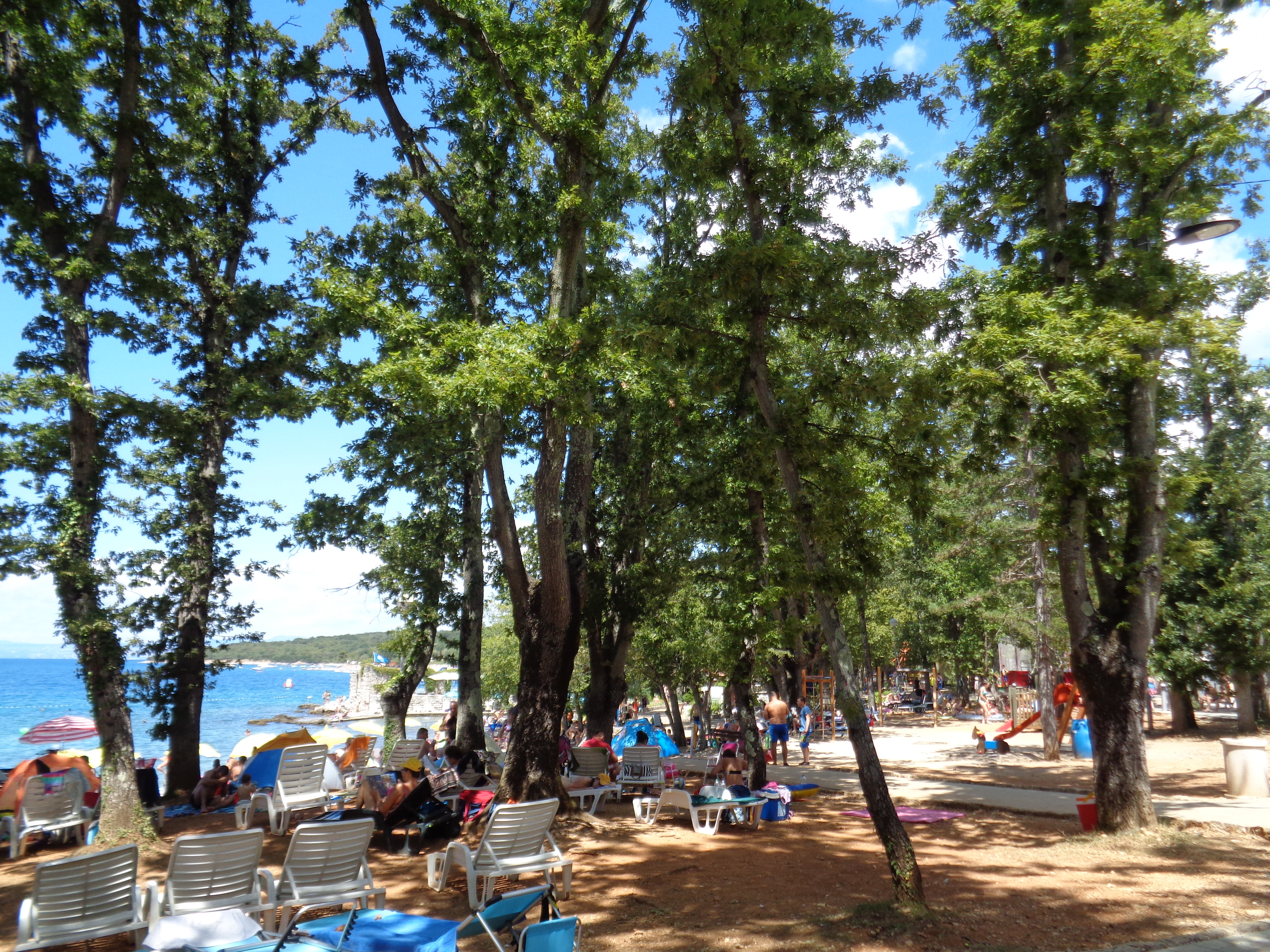 Njivice, Island of Krk, Primorje-Gorski Kotar County, Croatia - oak forest next to beach